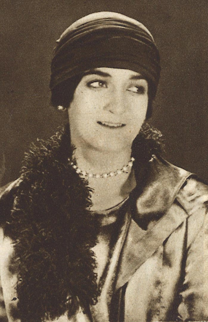 Birgitta Wendel (née Sparre; 1900-1985), Swedish baroness and actress.